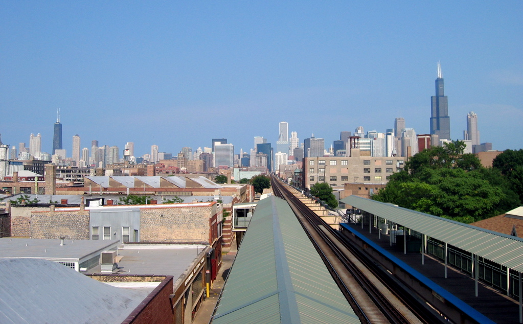 The Chicago skyline viewed from the Ashland CTA Green Line station.